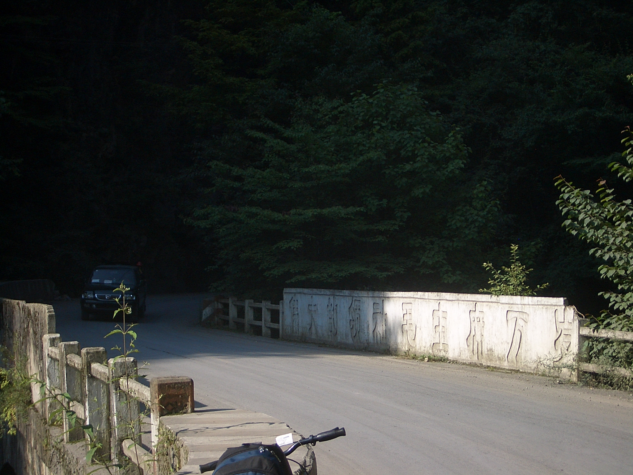 China Hwy G209, crossing Yema He (a few km south of Hongping, Shennongjia, toward Yazikou)